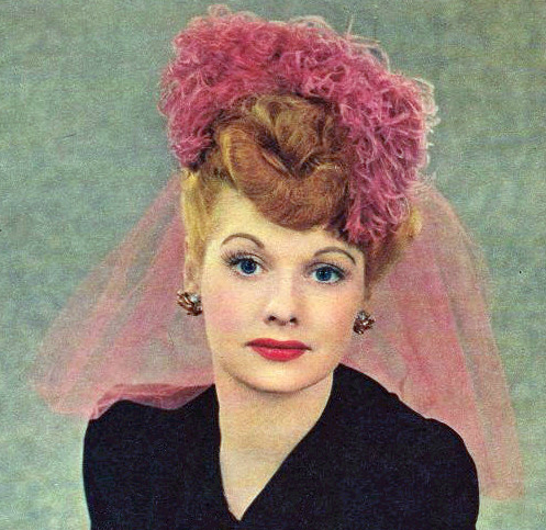 Photo of Lucille Ball from the New York Sunday News.